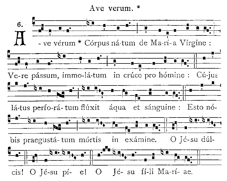 Gregorian chant Ave verum from: Liber usualis Missae et Officii, Tournai 1953, p. 1856